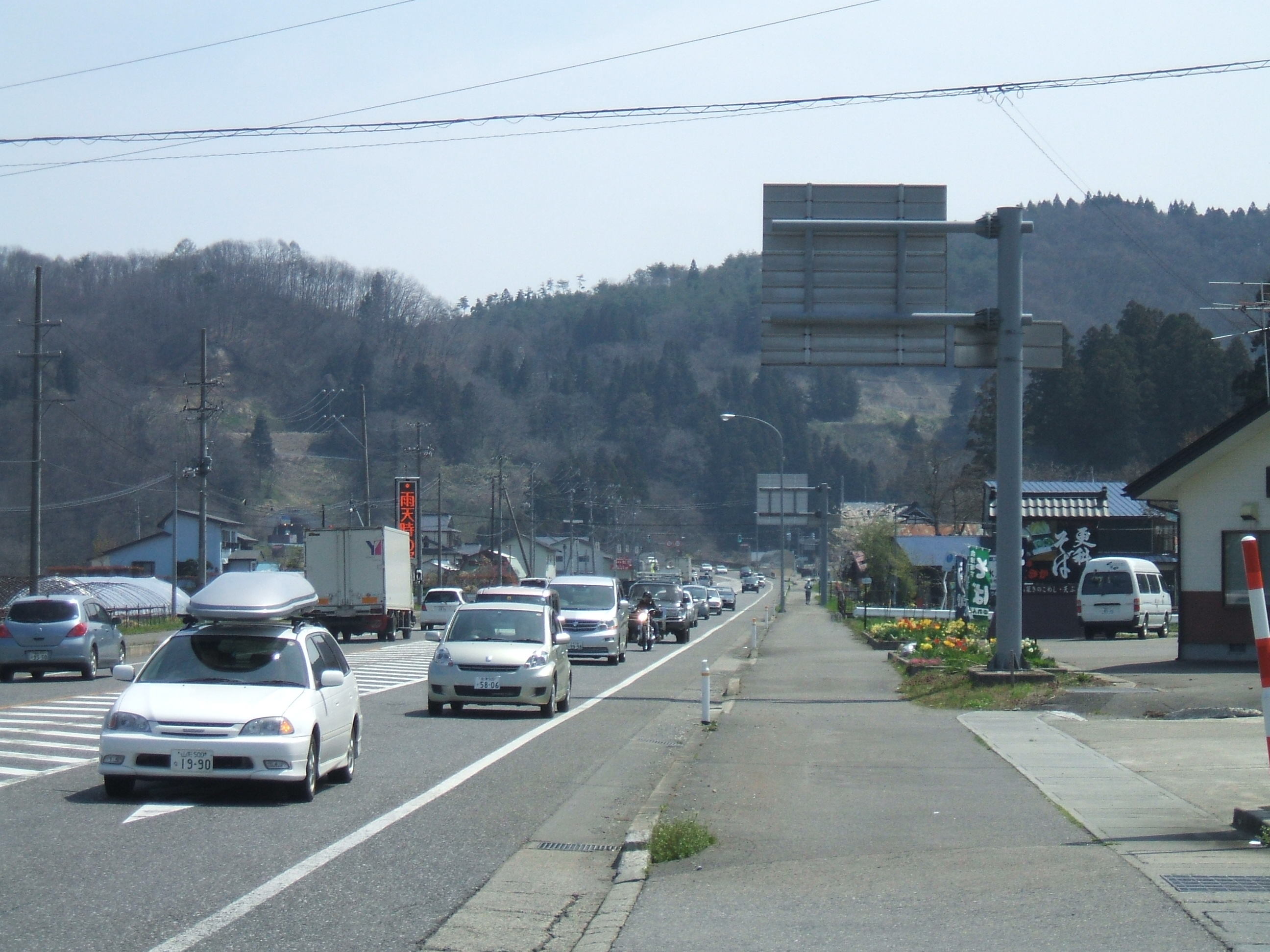 Landscape of Nanaori-Touge. It was taken from Sakamoto, Aizubange, Fukushima.